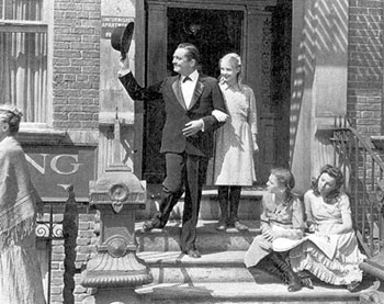 Promotional still from the 1945 film A Tree Grows in Brooklyn